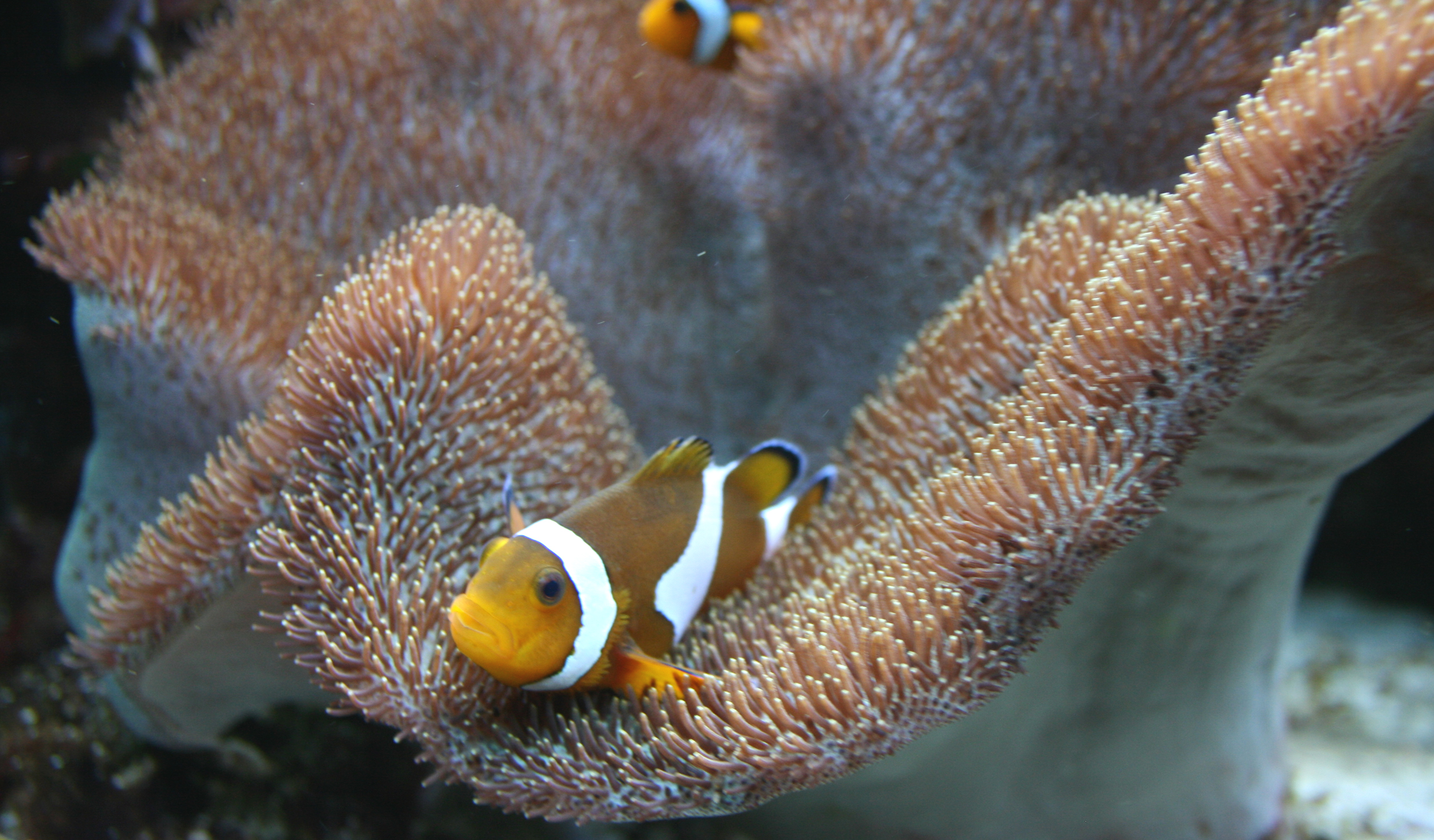 Fish Amphiprion ocellaris on Sarcophython glaucum in Prague sea aquarium, Czech Republic